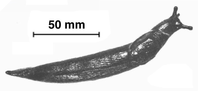 Black-and-white photo of Ariopelta capensis.